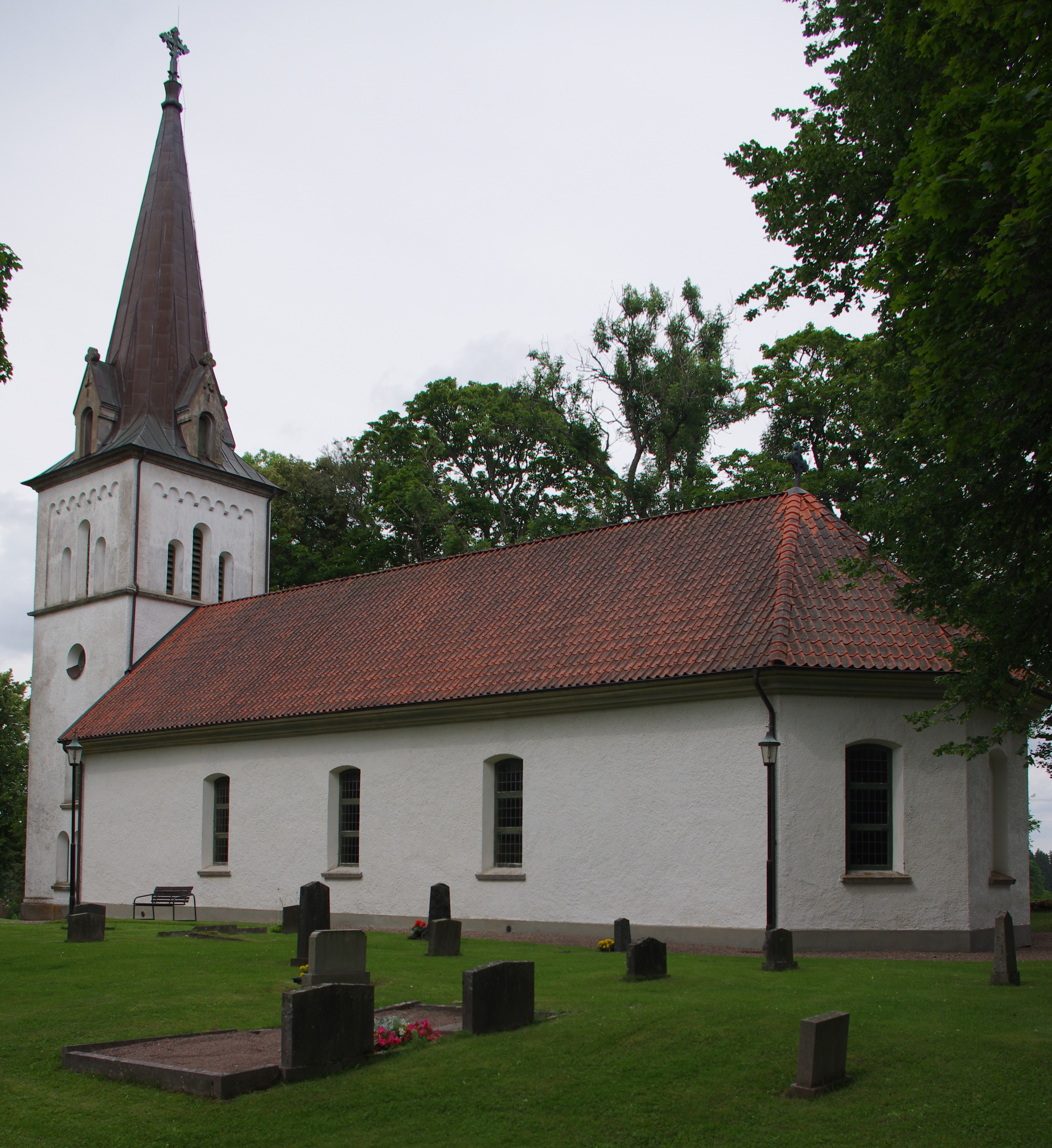 Hömb church in Västergötland, Sweden.